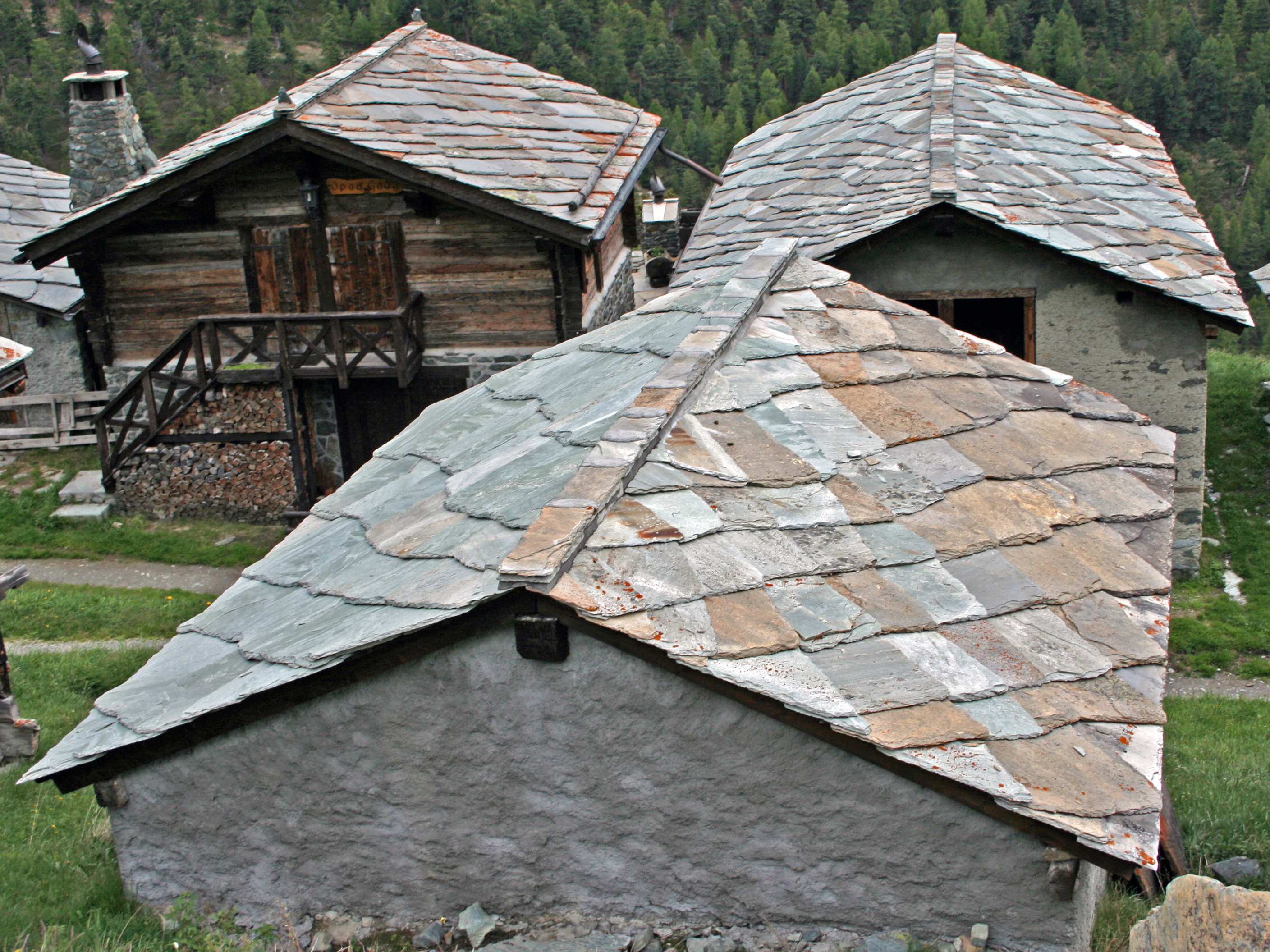 Slate roof tiles atop small huts near Zermatt, Switzerland